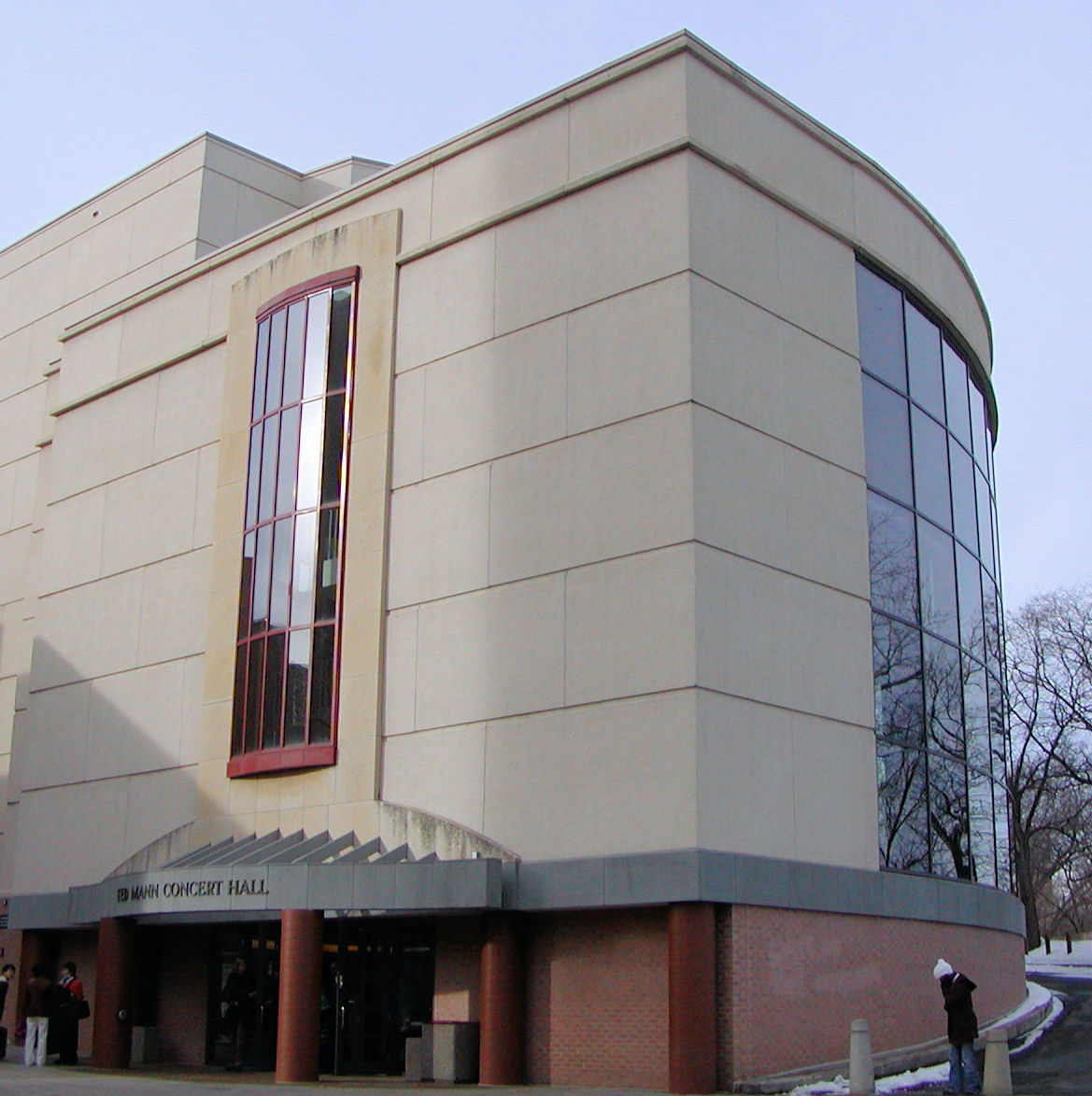 Ted Mann Concert Hall